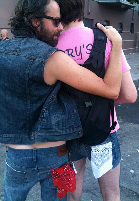 2 guys with hankies.